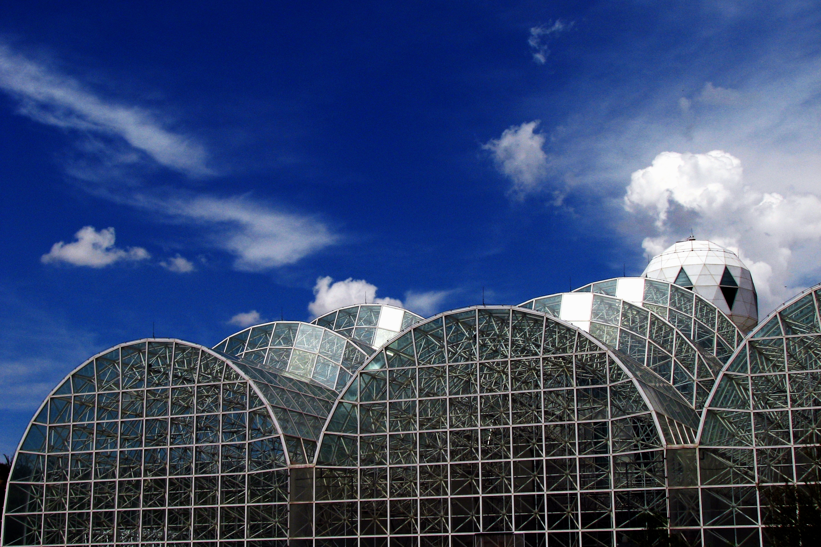 arizona, Biosphere 2, north america, road trip, 2006-07 -- United States Road Trip, filtered, edited, the west, southwest